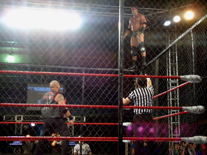 Chris Angel about to perform a spot on Savio Vega during his first defense of the IWA Intercontinental Heavyweight Championship. Taken from ringside at Histeria Boricua 2011, held on Epiphany in Bayamón.